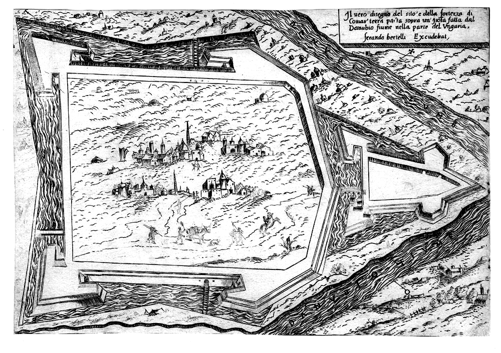 Komárom 16th Century